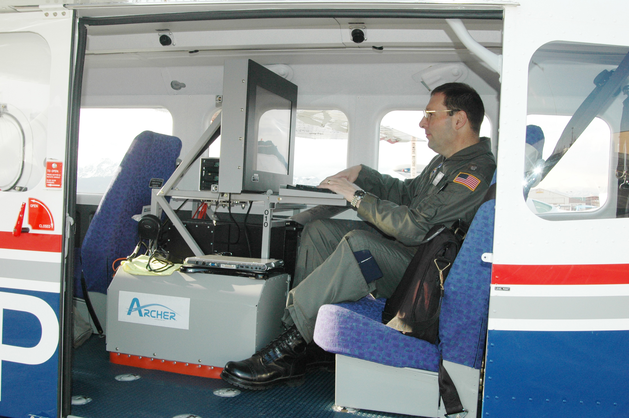 ANCHORAGE, AK -- Lt. Col. Stuart Goering, Alaska Civil Air Patrol Wing, prepares an external hard drive for the ARCHER system before a May 15 Alaska Shield/Northern Edge mission mapping the Alaskan Pipeline. Exercise Alaska Shield / Northern Edge 07 is a state of Alaska / US Northern Command sponsored homeland defense / defense support of civil authorities exercise; part of the national-level Ardent Sentry / Northern Edge 07 exercise.